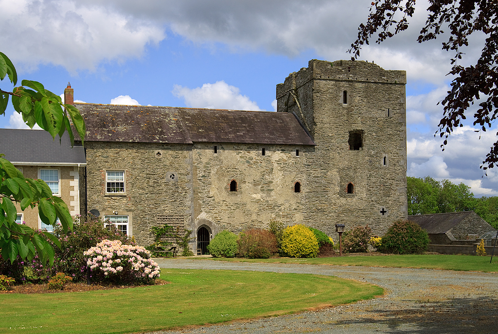 Four storey towerhouse south of Dunleer, photographed by Mike Searle